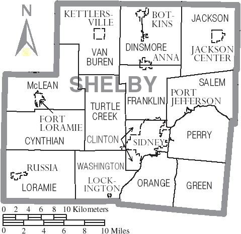 Map of Shelby County, Ohio, United States with township and municipal boundaries